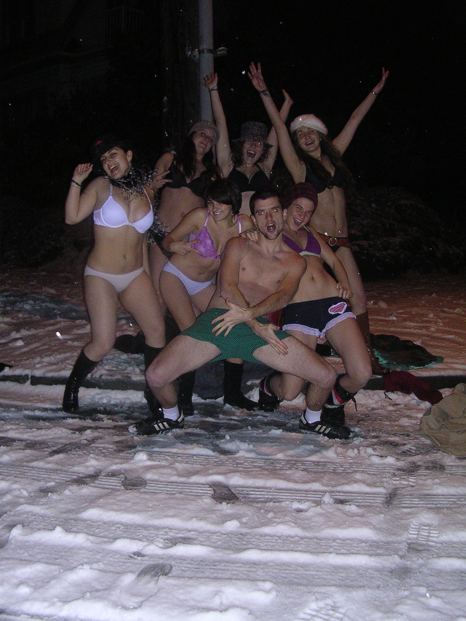 Group of friends in underwear outside during a Winter night in Seattle.naked city